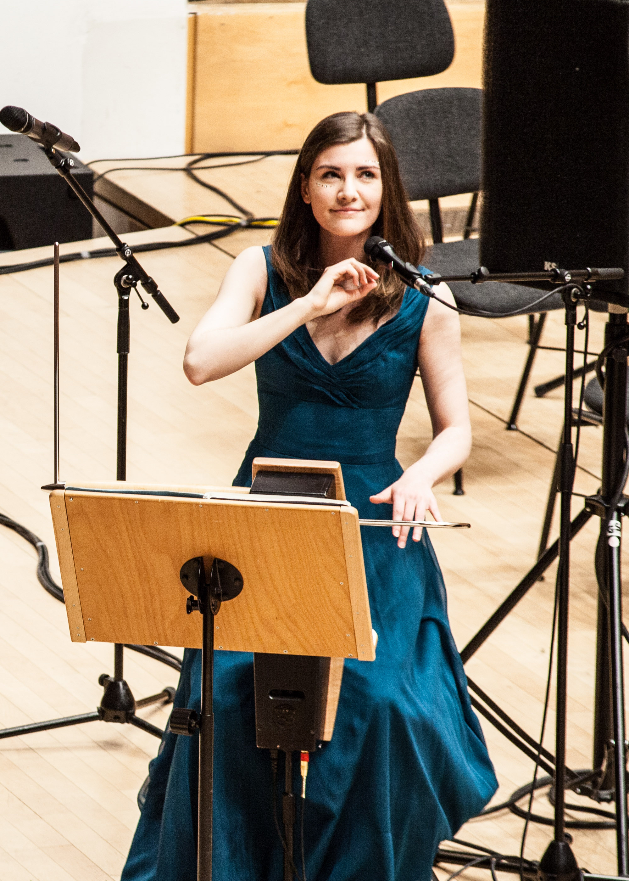 Carolina Eyck playing the theremin at the Georg-Friedlich-Händel Halle in Halle.